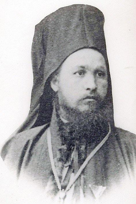 Raphael Popov was a Bulgarian priest and a participant in the struggle for an independent national church.